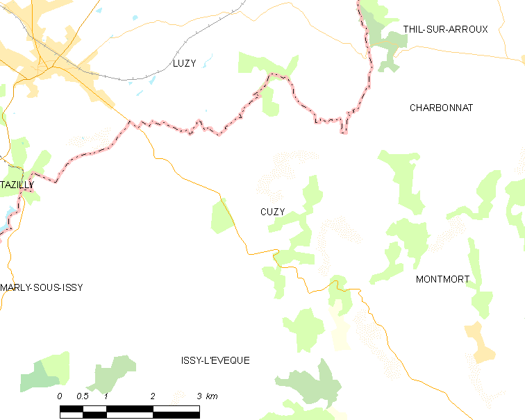 Map of French municipality